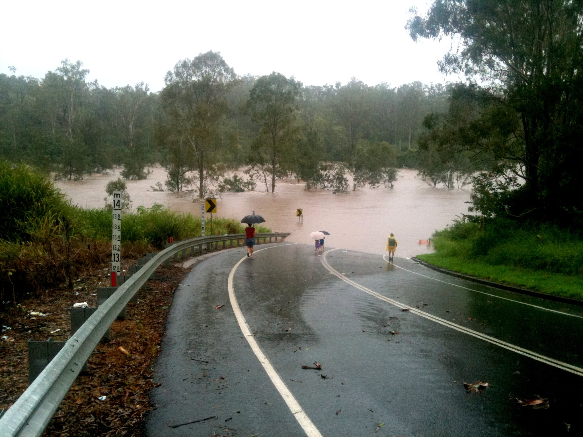 Colleges Crossing underwater in the Ipswitch suburb of Chuwar.